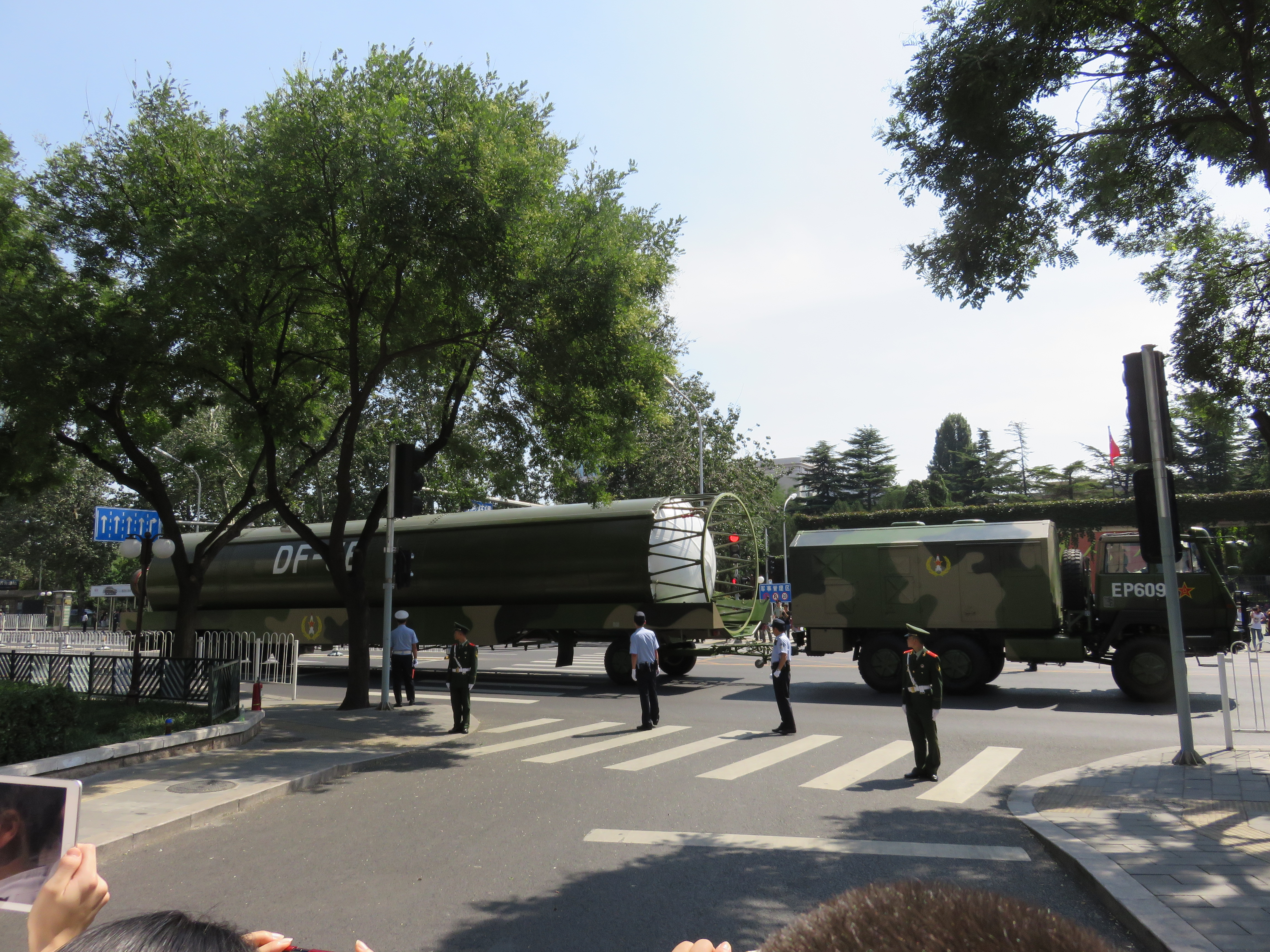 First stage of the the newly upgraded DF-5B Chinese intercontinental ballistic missile, as seen after the military parade held in Beijing on September 3, 2015 to commemorate 70 years since the end of WWII.